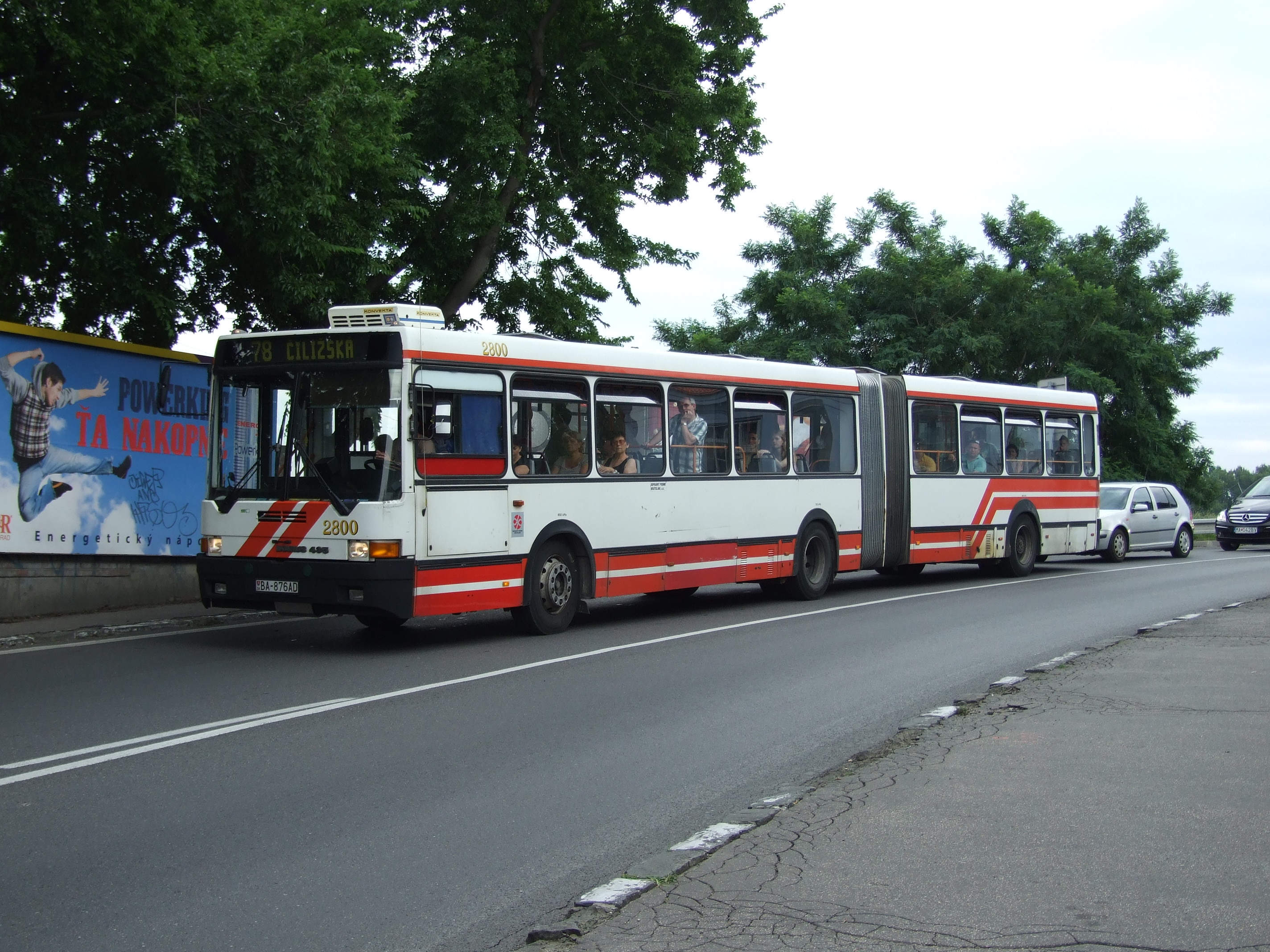 Public transport bus in Bratislava, SKhelp